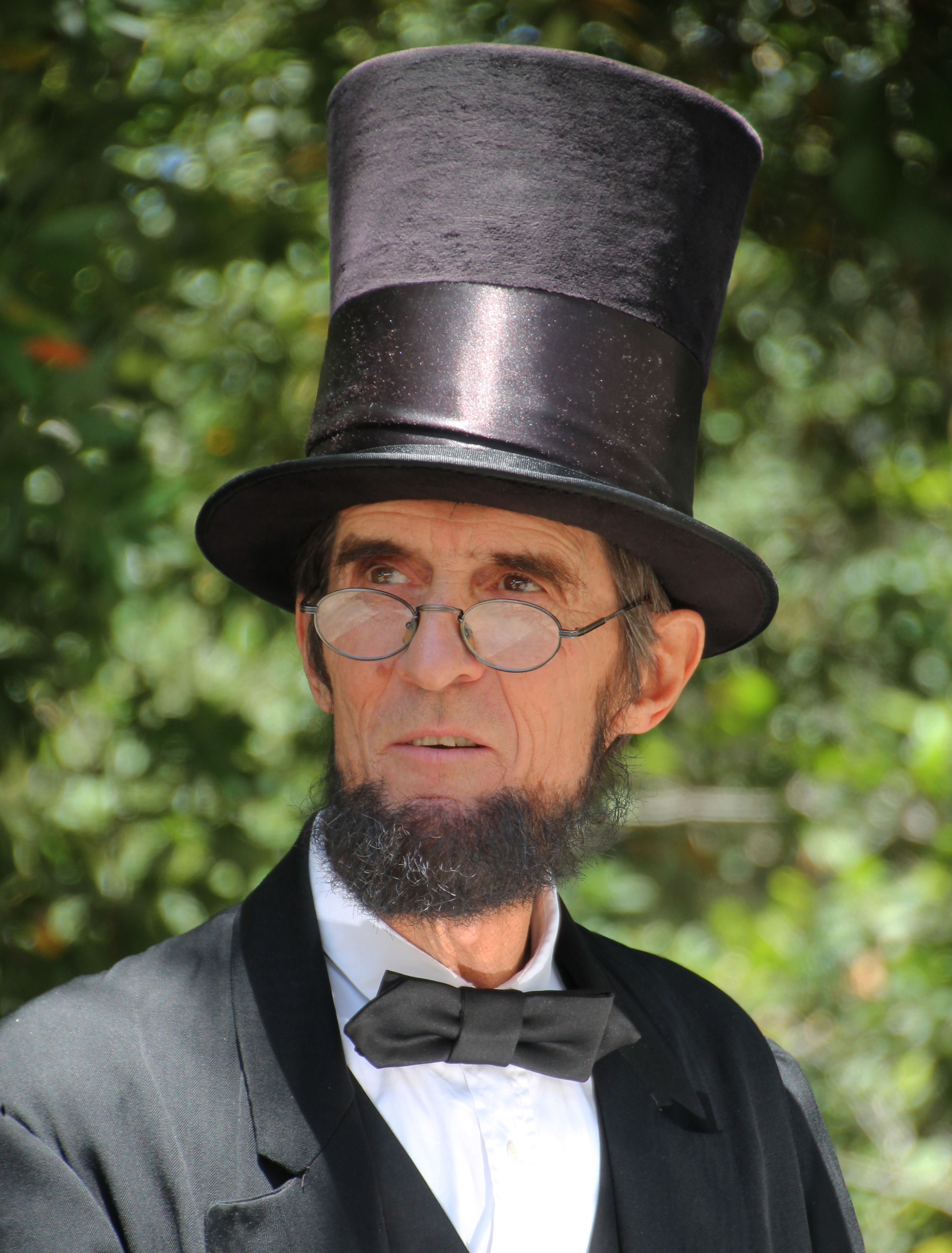 Abraham Lincoln, Living History Extravaganza at Buena Vista Winery, Sonoma, California, 2015.